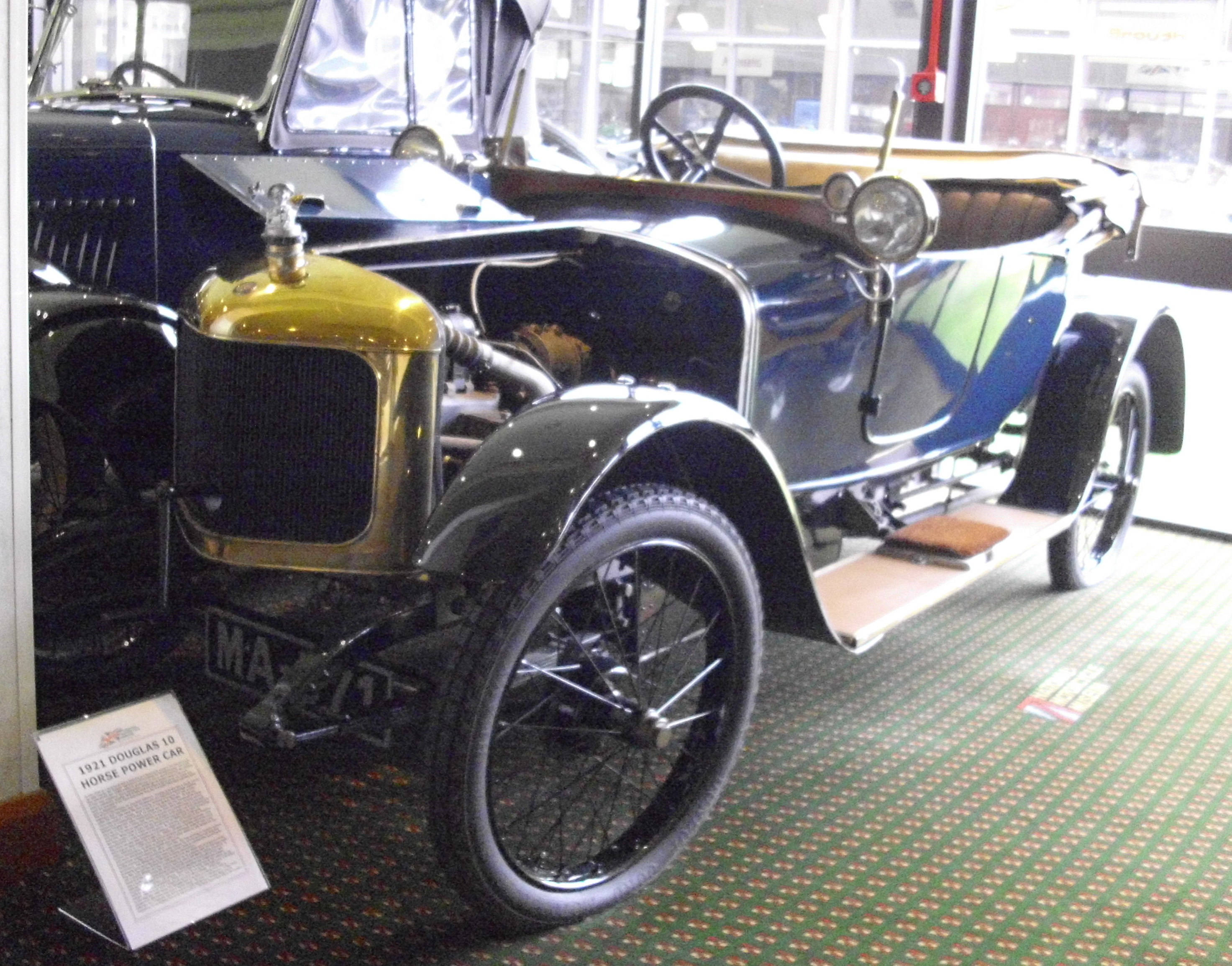 Douglas 10 HP 1921